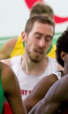 Lee Emmanuel competing in the 3000 metres final at the 2016 IAAF World Indoor Championships